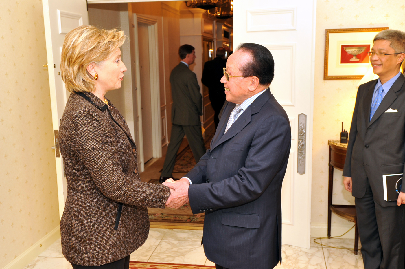 U.S. Secretary of State Hillary Rodham Clinton meets with Cambodian Deputy Prime Minister and Foreign Minister Hor Namhong at the Waldorf Astoria hotel in New York City, New York September 28, 2009. [State Department photo / Public Domain]